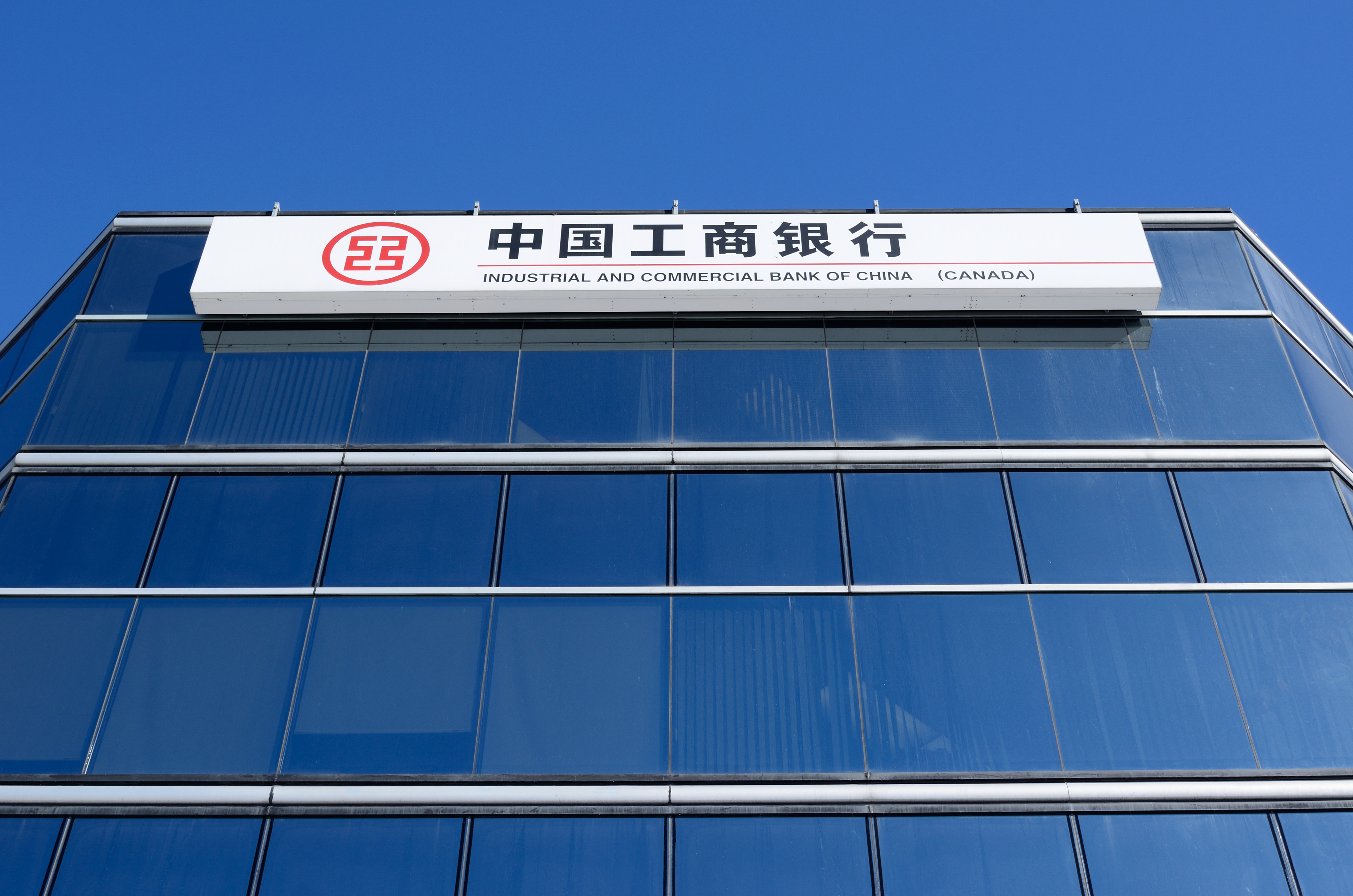 Industrial and Commercial Bank of China - 350 Highway 7 East